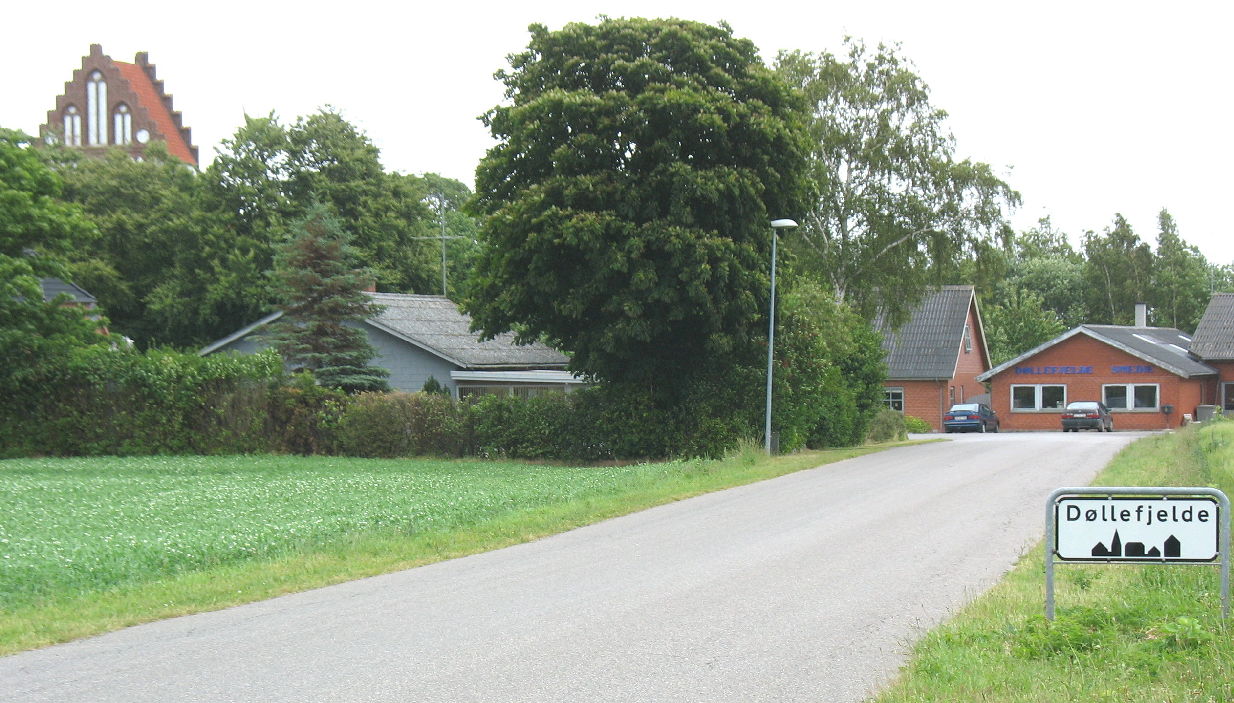 The village "Døllefjelde" loacted on the Danish island Lolland.